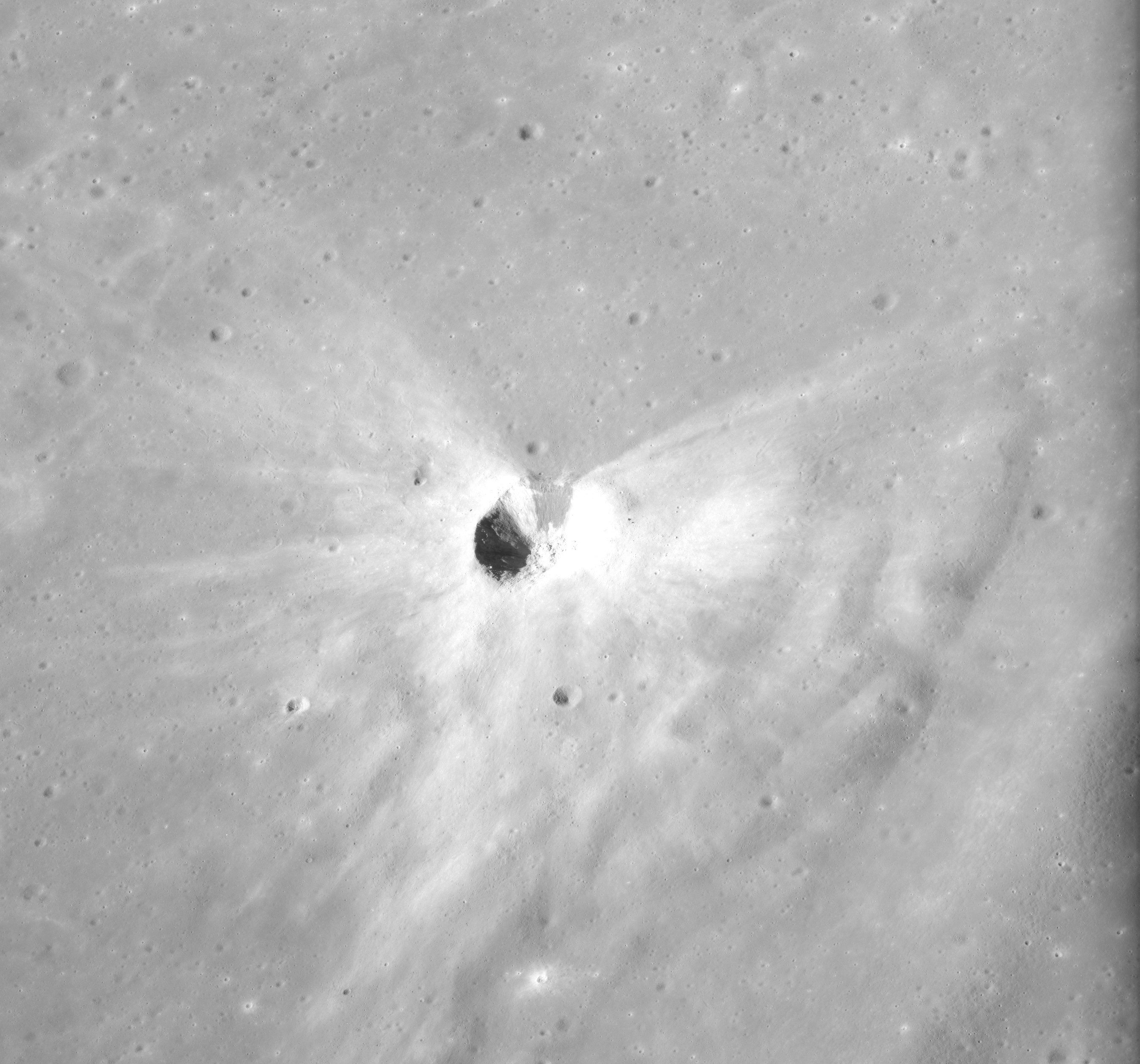 Oblique view facing south of a small, fresh impact crater within the larger Daguerre crater, Mare Nectaris, the moon. The crater is called Daguerre 66 in the caption of 16-mm magazine 1196-B on the Apollo 14 Flight Journal video index. This image is similar to Figure 111 of Apollo Over the Moon: A View from Orbit (NASA SP-362), which has the following caption: For easier viewing, this picture is oriented with north at the bottom of the page. It shows the striking bilateral symmetry of the rays of a small (2-km diameter) crater in the floor of the large crater Daguerre in Mare Nectaris. Continuous areas and narrow filaments of light-gray ejecta extend from the crater across the dark mare surface through 270°, but are entirely absent in the southern 90° sector. Within the crater, dark material occurs on the southern crater wall while the remaining walls are bright. (The reader may wonder about the material whose reflectivity cannot be observed because it lies in shadow on the east wall of this crater. Until the area is observed under high Sun conditions, we are forced to make the simplifying assumption that it is bright because most of the materials visible elsewhere in the walls are bright.) This crater probably resulted from the impact of a projectile traveling from south to north along an oblique trajectory. Its pattern of ejecta distribution is similar to that of small craters produced by the impact of missiles along oblique trajectories at the White Sands Missile Range, N. Mex. Some observers postulate that the dark material is a talus deposit of mare material that has fallen into the crater.-H.J.M. Another geological explanation is that the unusual pattern may be due to an intrinsic characteristic of the local terrain, probably an abrupt lateral change in the composition of the bedrock within the area that was excavated. F.E.-B.